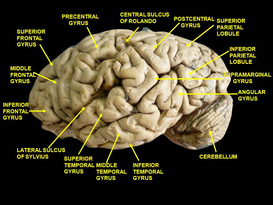 Anatomical dissections